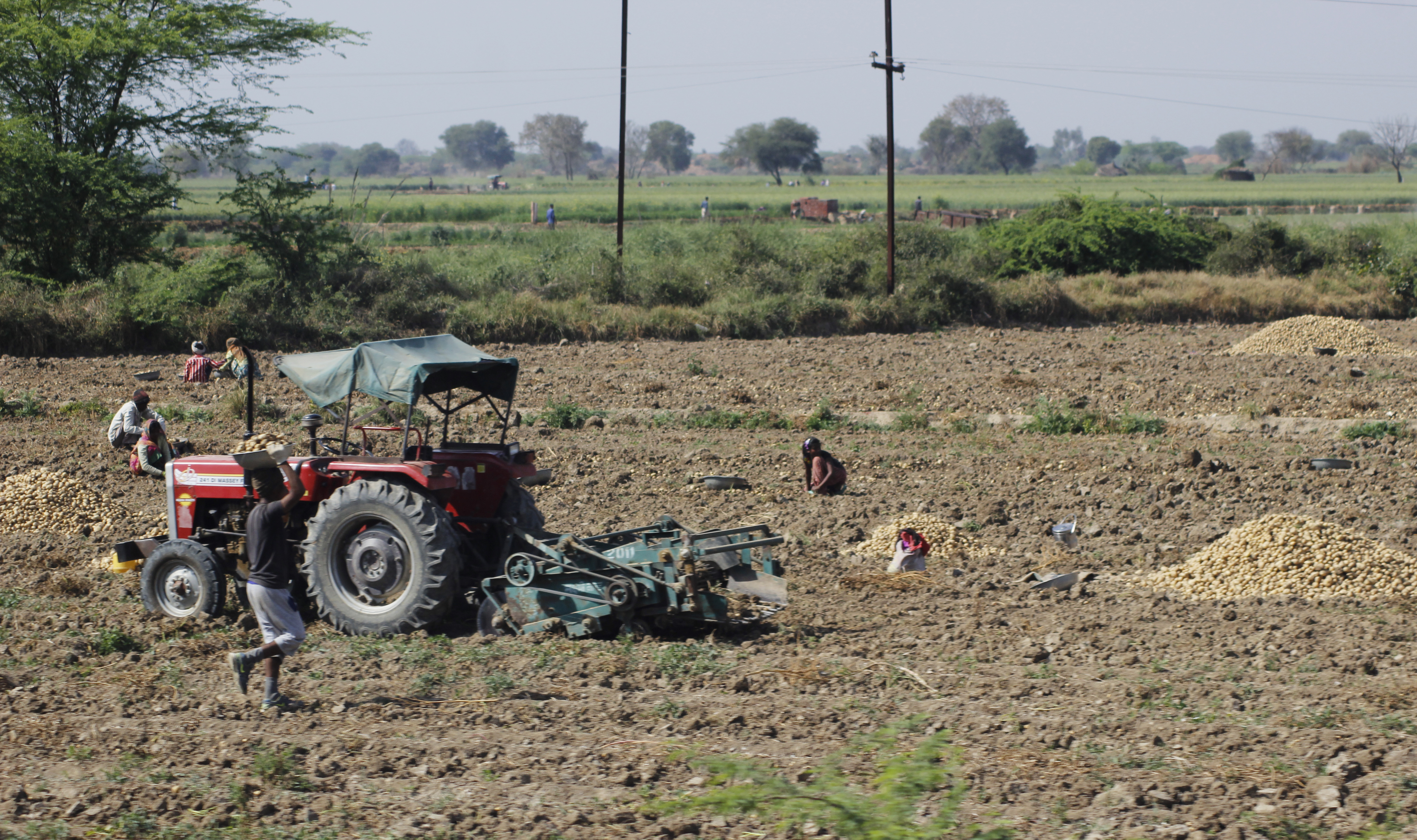 Potato farming in India